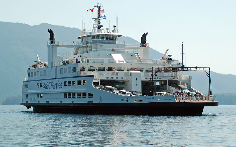 Island Sky approaching Saltery Bay.